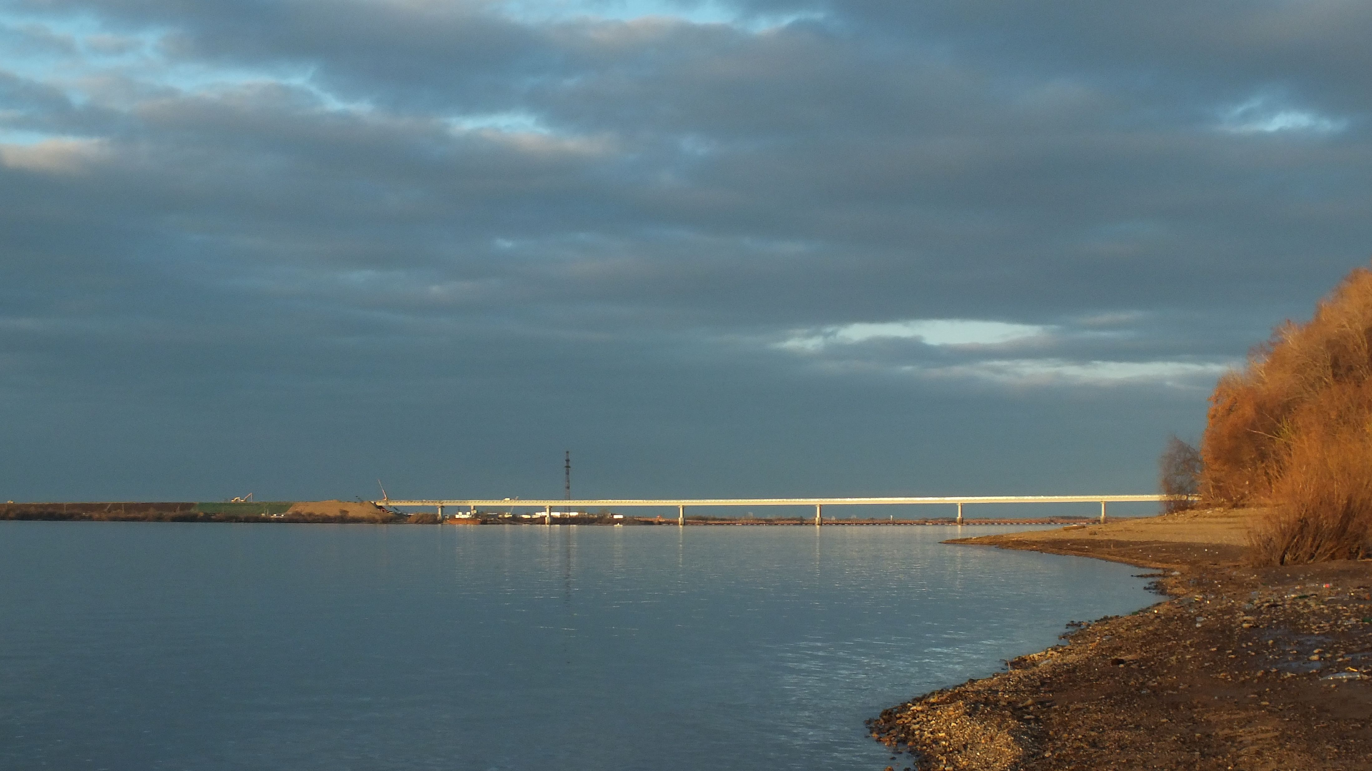 Amurskaya protoka